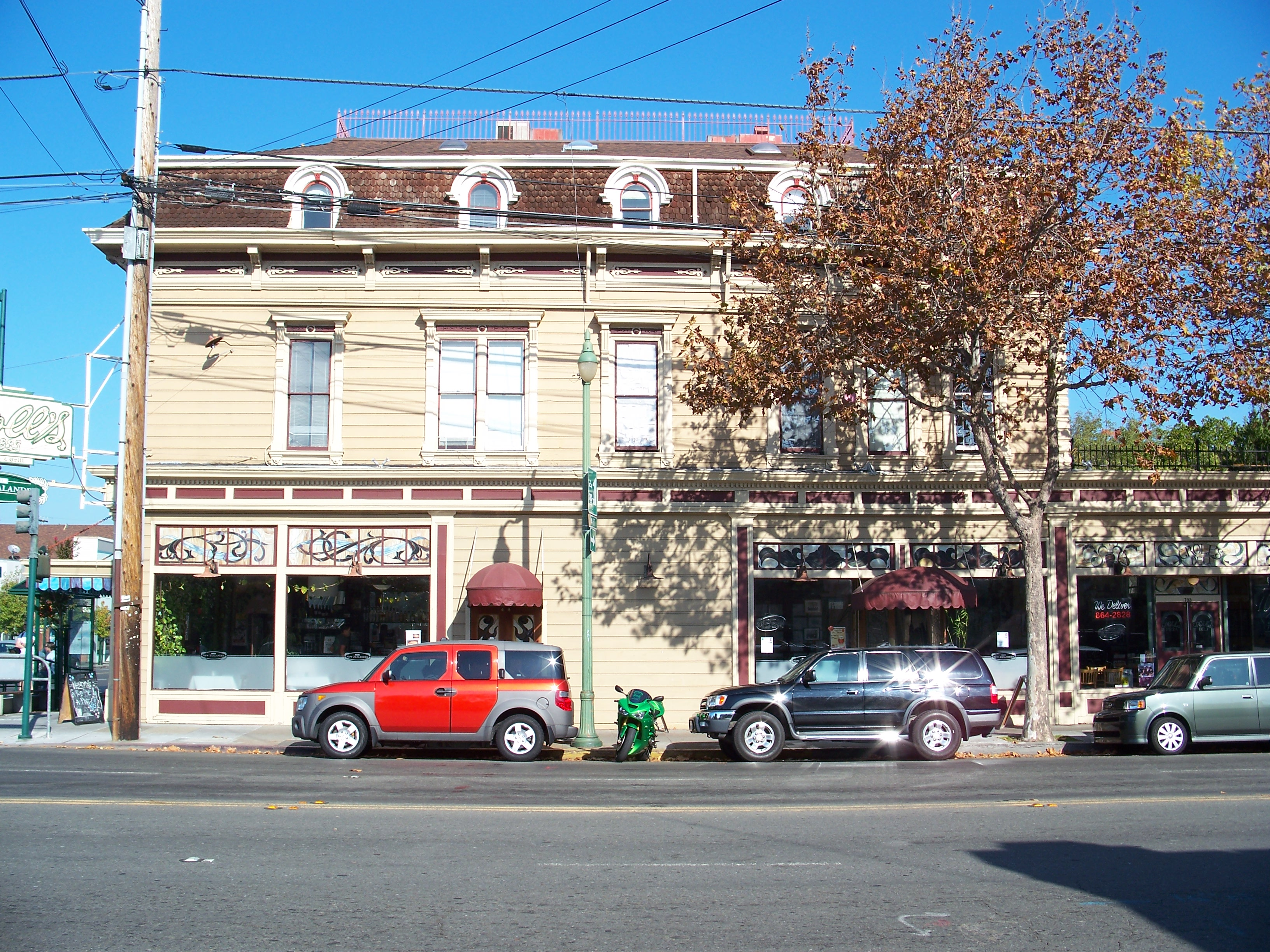 Croll building. 1400 Webster Street. Alameda, California, USA